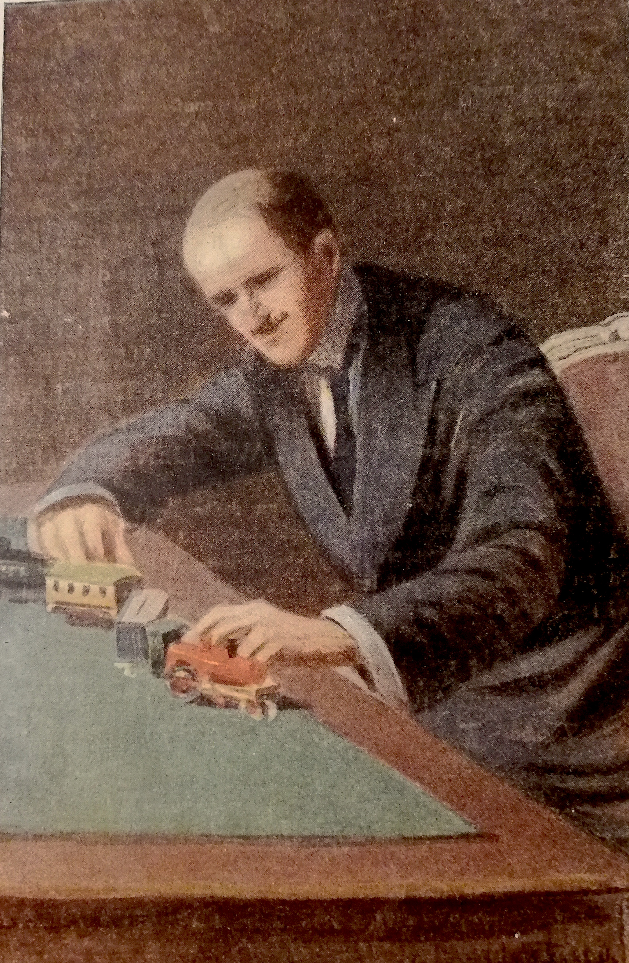 Portrait of Maurice Franc-Nohain by L. Cappiello, photocomposition after a painting.